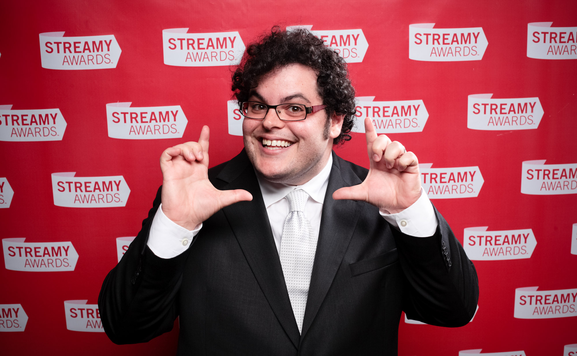 Thanks for viewing the official Streamy Awards photos! The exclusive photos of the winners and presenters are here. You don't want to miss those! We could not have done this without our awesome team of associate photographers: Bonny Pierzina Gabriel Ryan Laura Kearse Joe Philipson Kevin Calumpit Luis Miguel Munoz-Najar Actually, without our production team we could not have done this either: Josh Allard Megan Chrisofferson Mark Bealo Scott Kearse Thanks so much everyone for your hard work, and thanks so much Streamy Awards for using us again for the official photography! Please feel free to use these photos under a Creative Commons Attribution license (which means you may use the photos as long as you attribute the photos to and provide a link back to ) You can learn more about the Sreamy Awards by visiting Also, you can learn more about these photos by visiting our website with our favorite Streamy Awards photos.